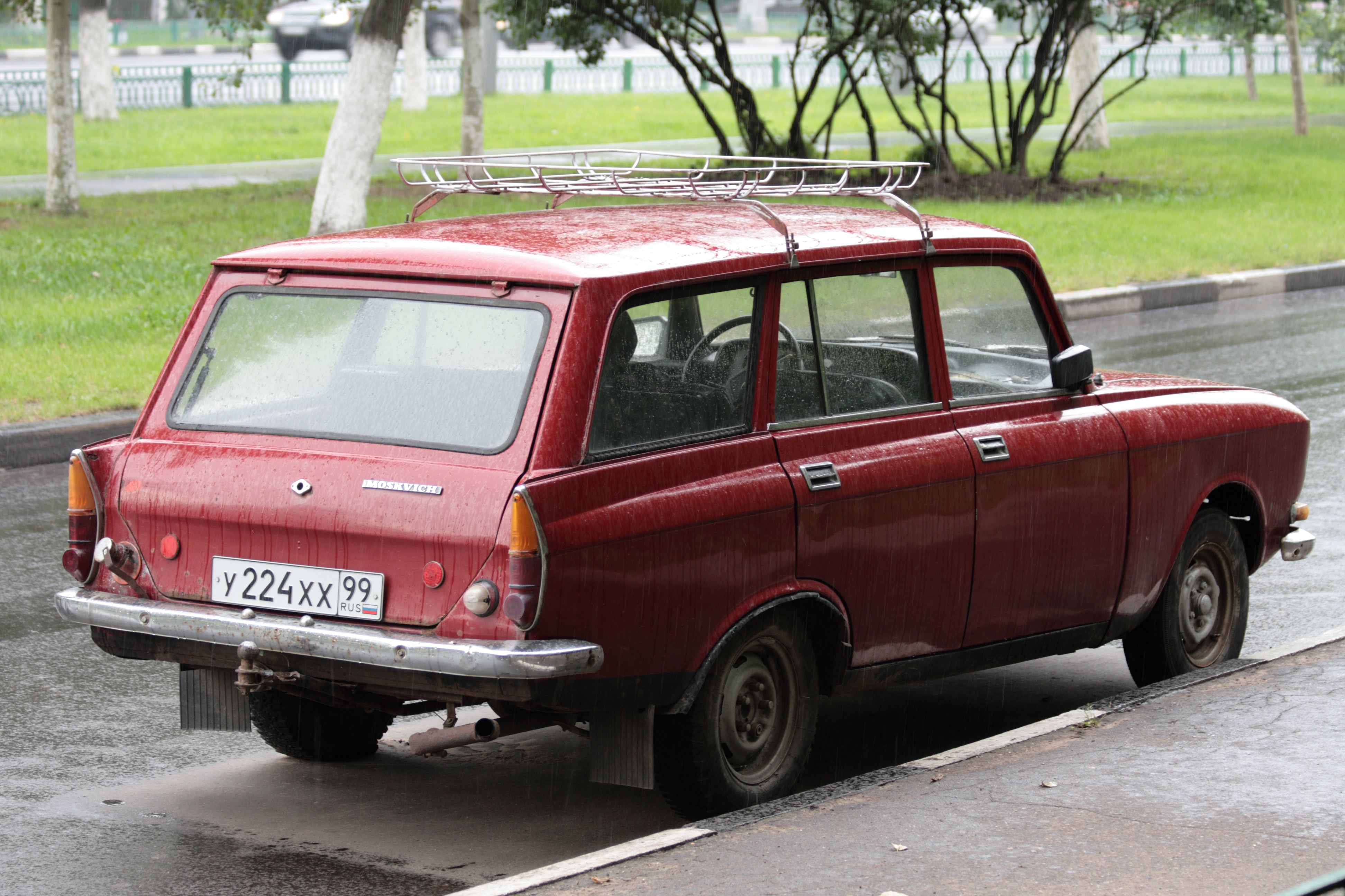 Moskvich 2137 rear view